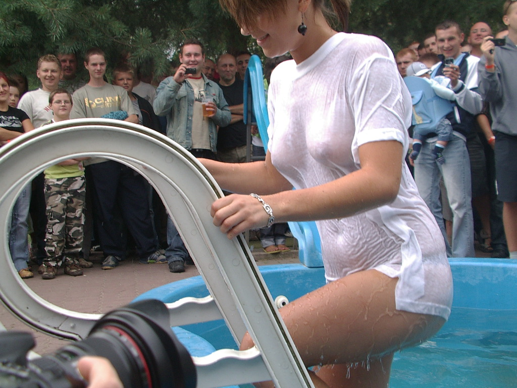 Wet T-shirt Contest in Morsko (Poland), the winner.